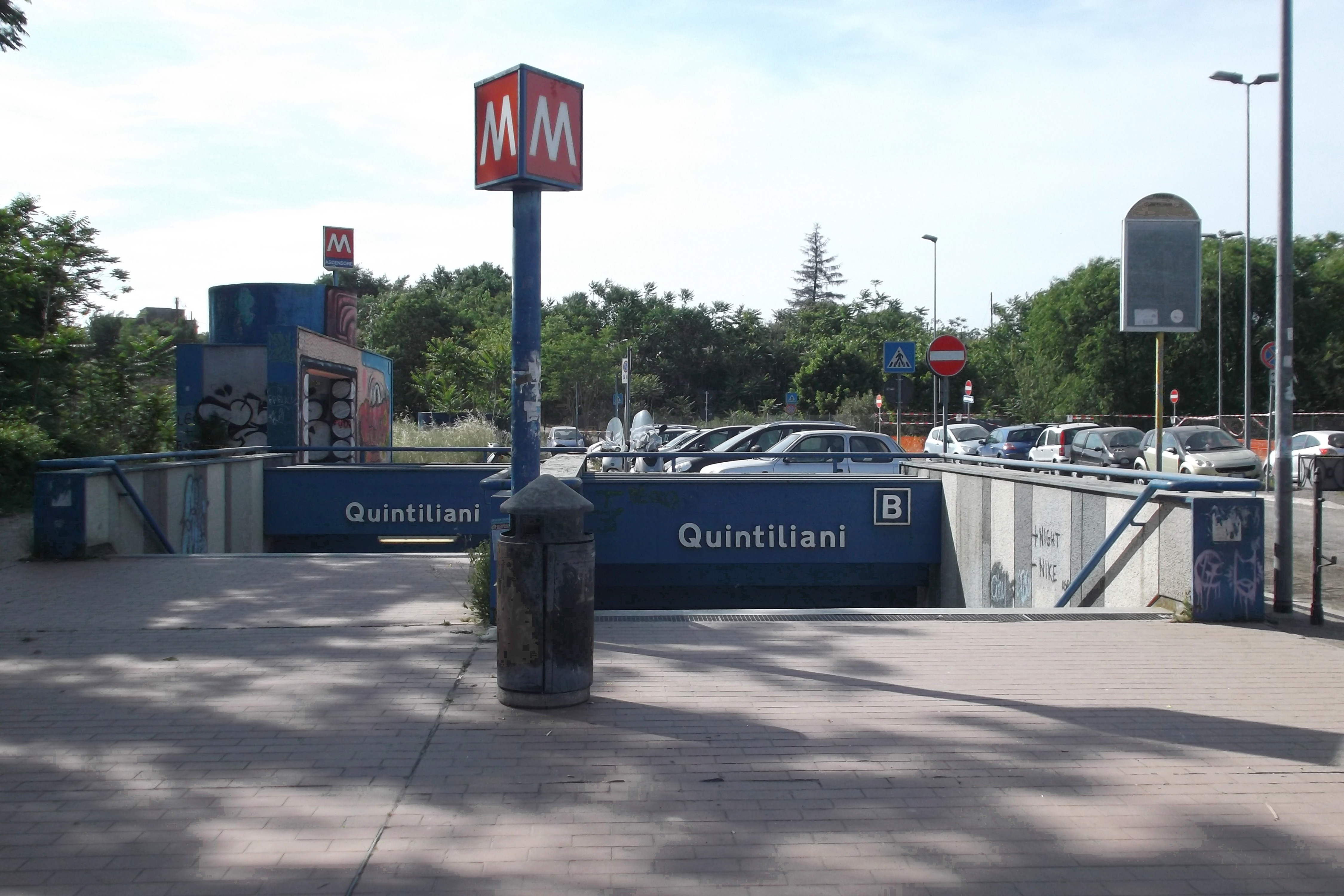 Street entrance of Quintiliani Metro B station in Rome